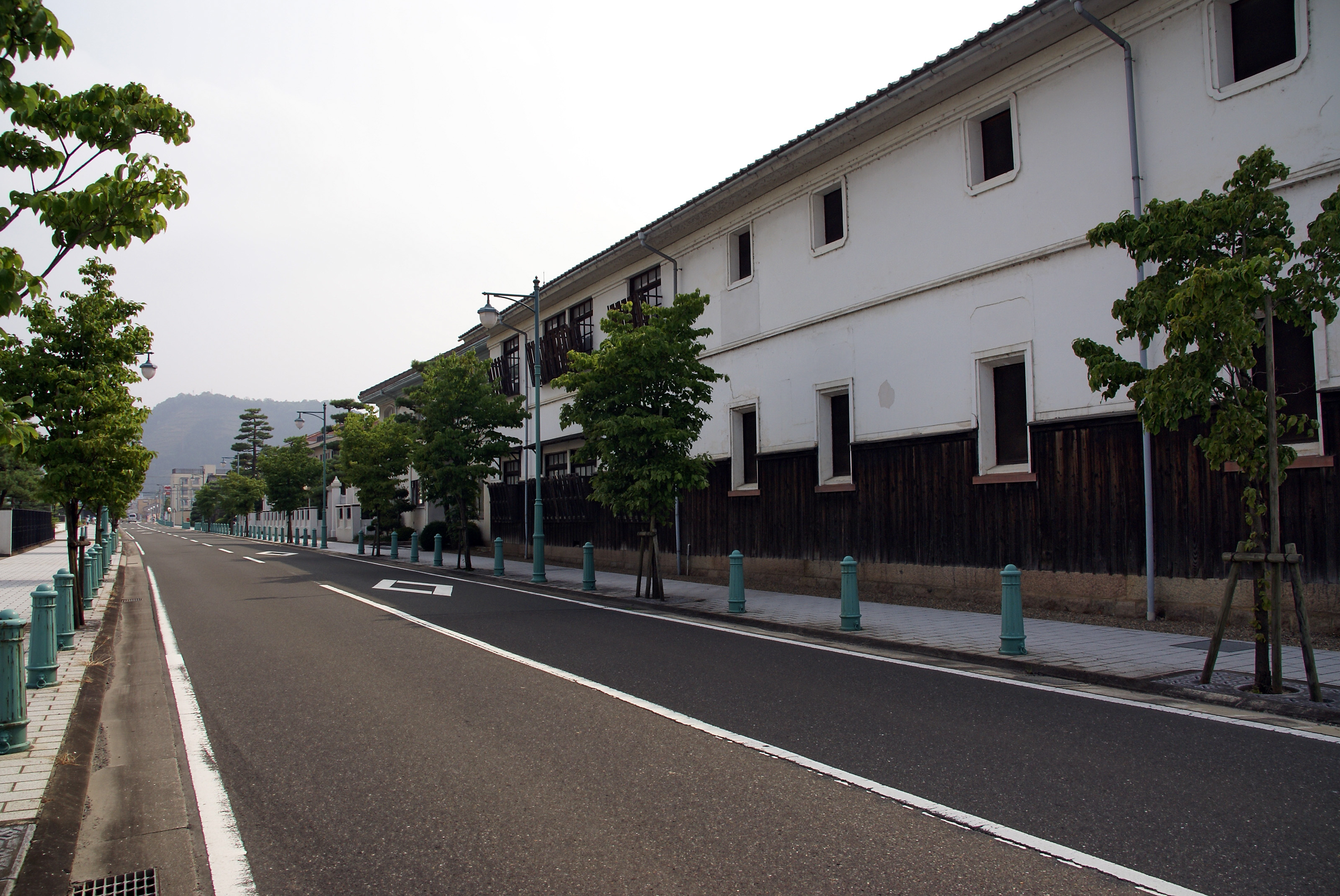 Gunze Head Quarters in Ayabe, Kyoto prefecture, Japan